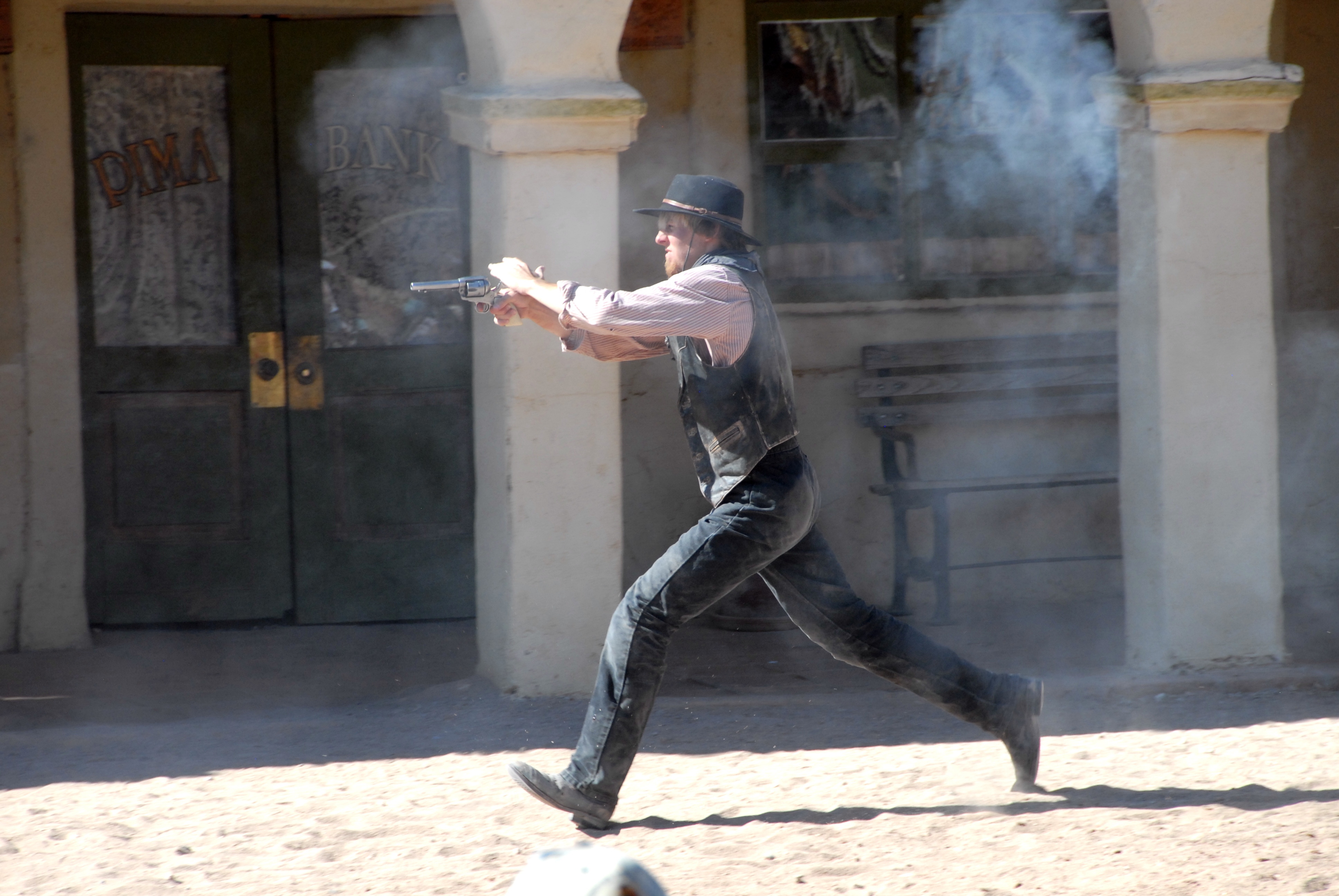 Cowboy running and shooting his gun.